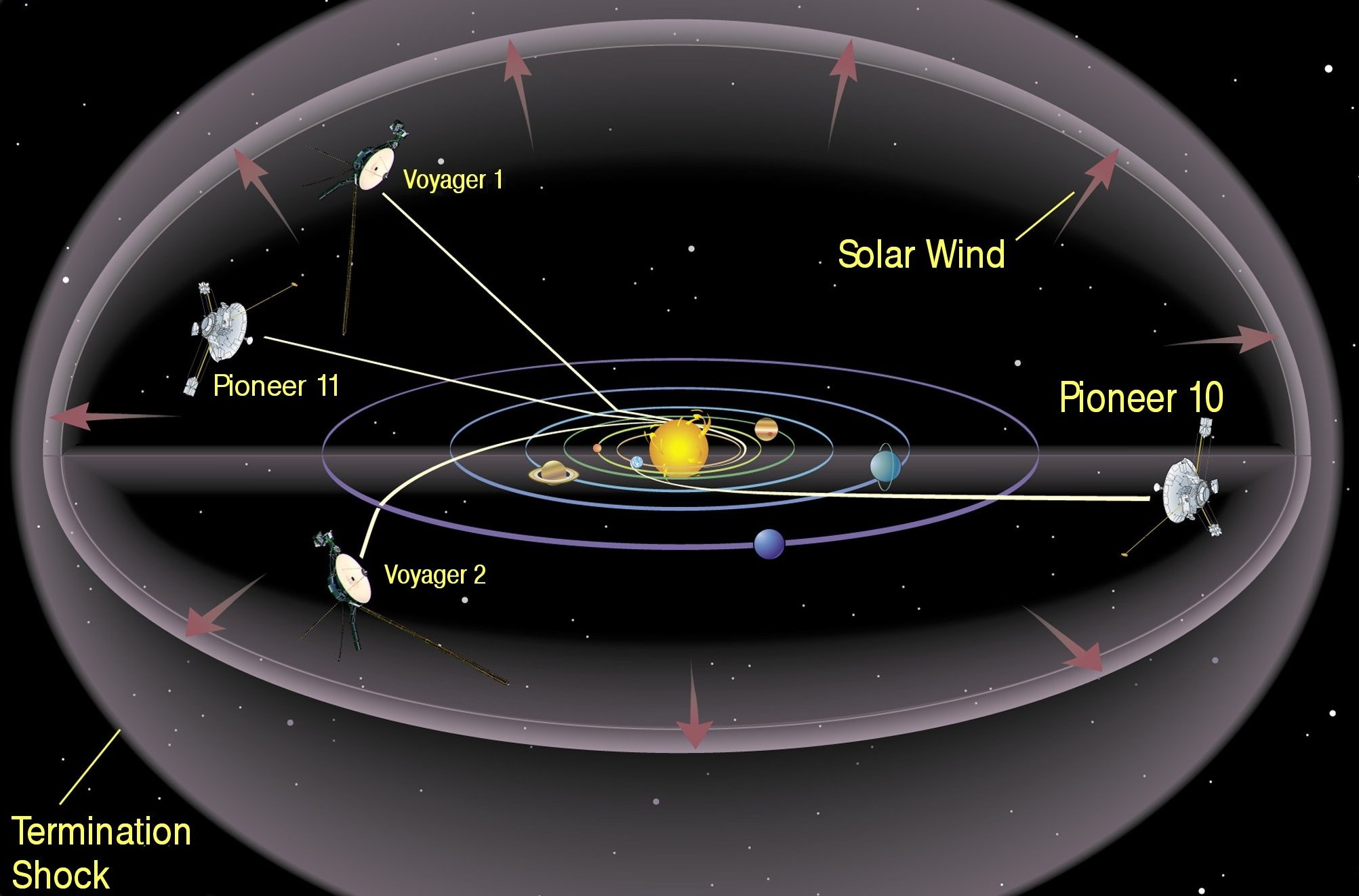 Spacecraft that are on trajectories to leave the Solar System.